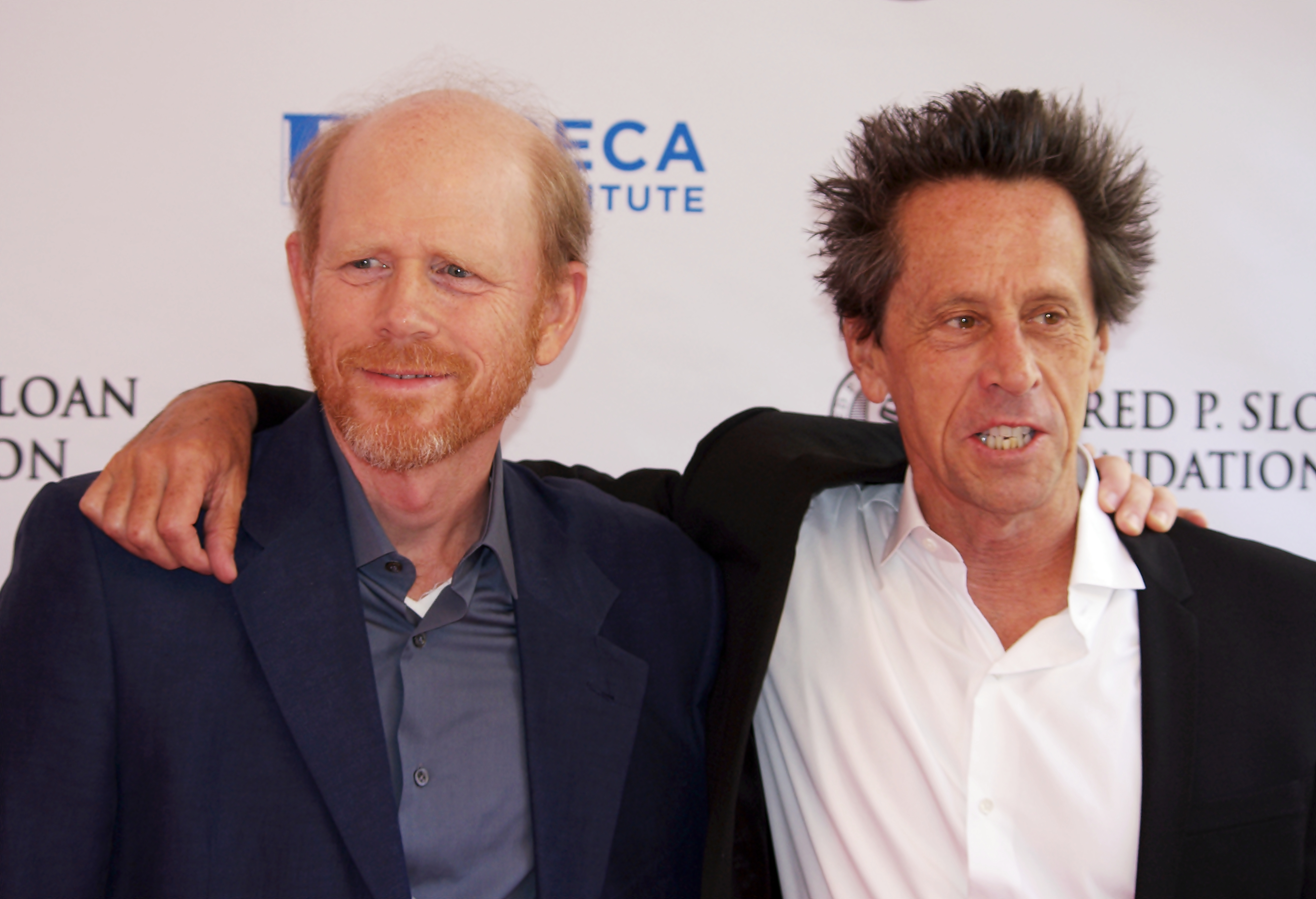 Ron Howard and Brian Grazer at Tribeca Talks After the Movie: A Beautiful Mind, Presented by Tribeca Film Institute and the Alfred P. Sloan Foundation.